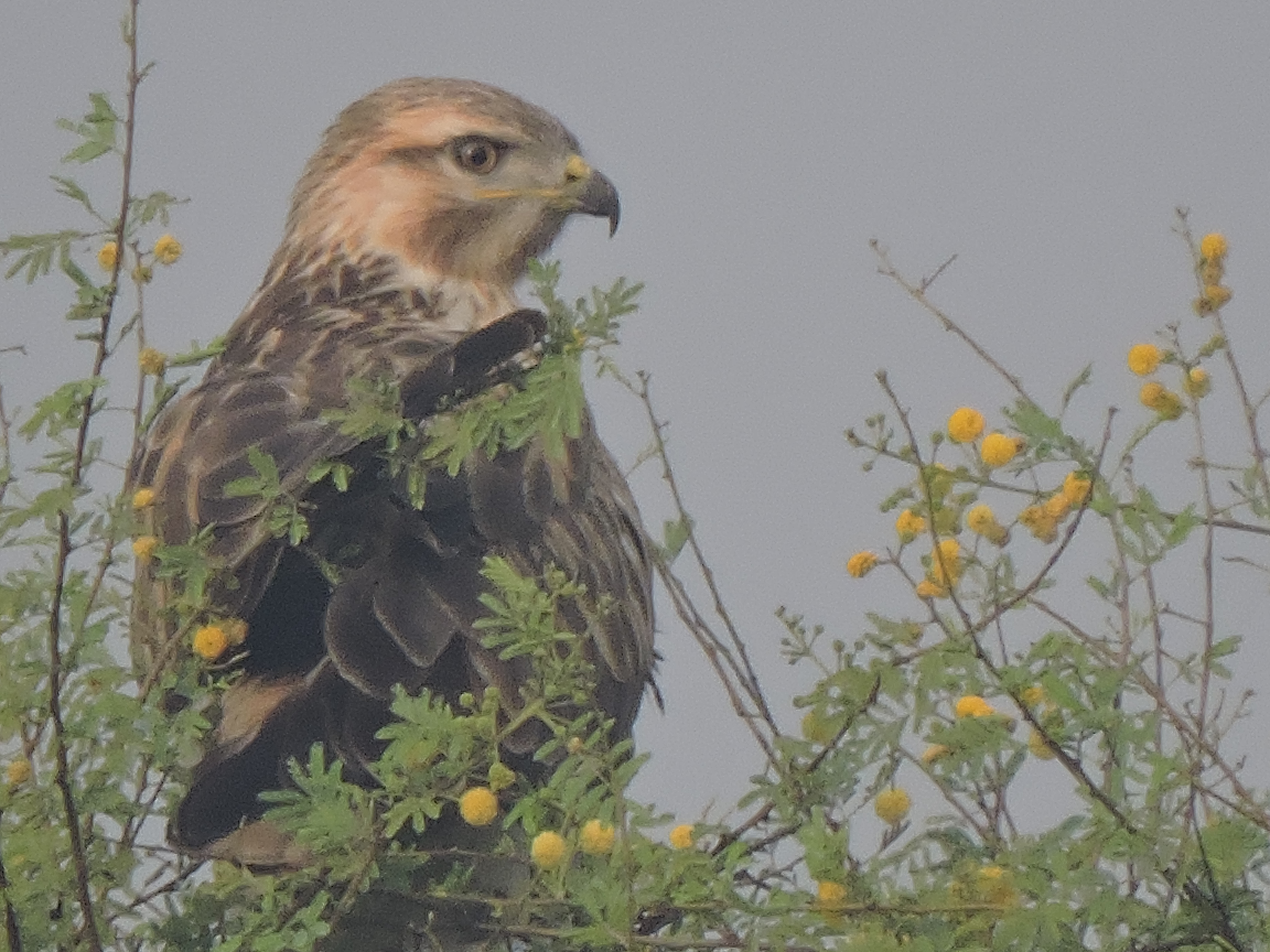 Shikra , Chappad Chidi, Mohali, Punjab, India